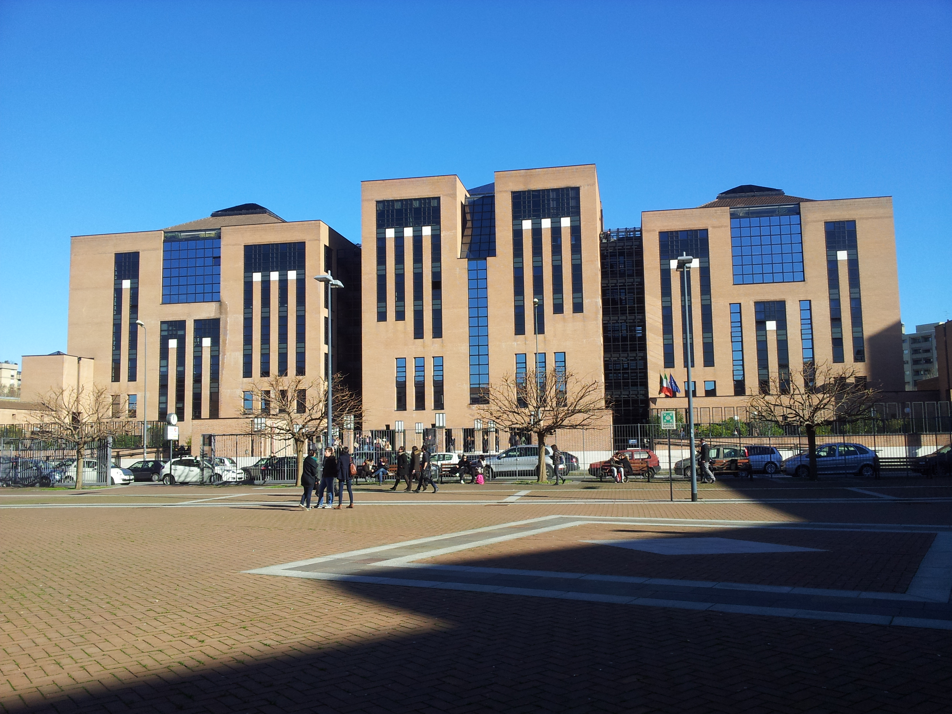 IULM University, Milan - Building 1